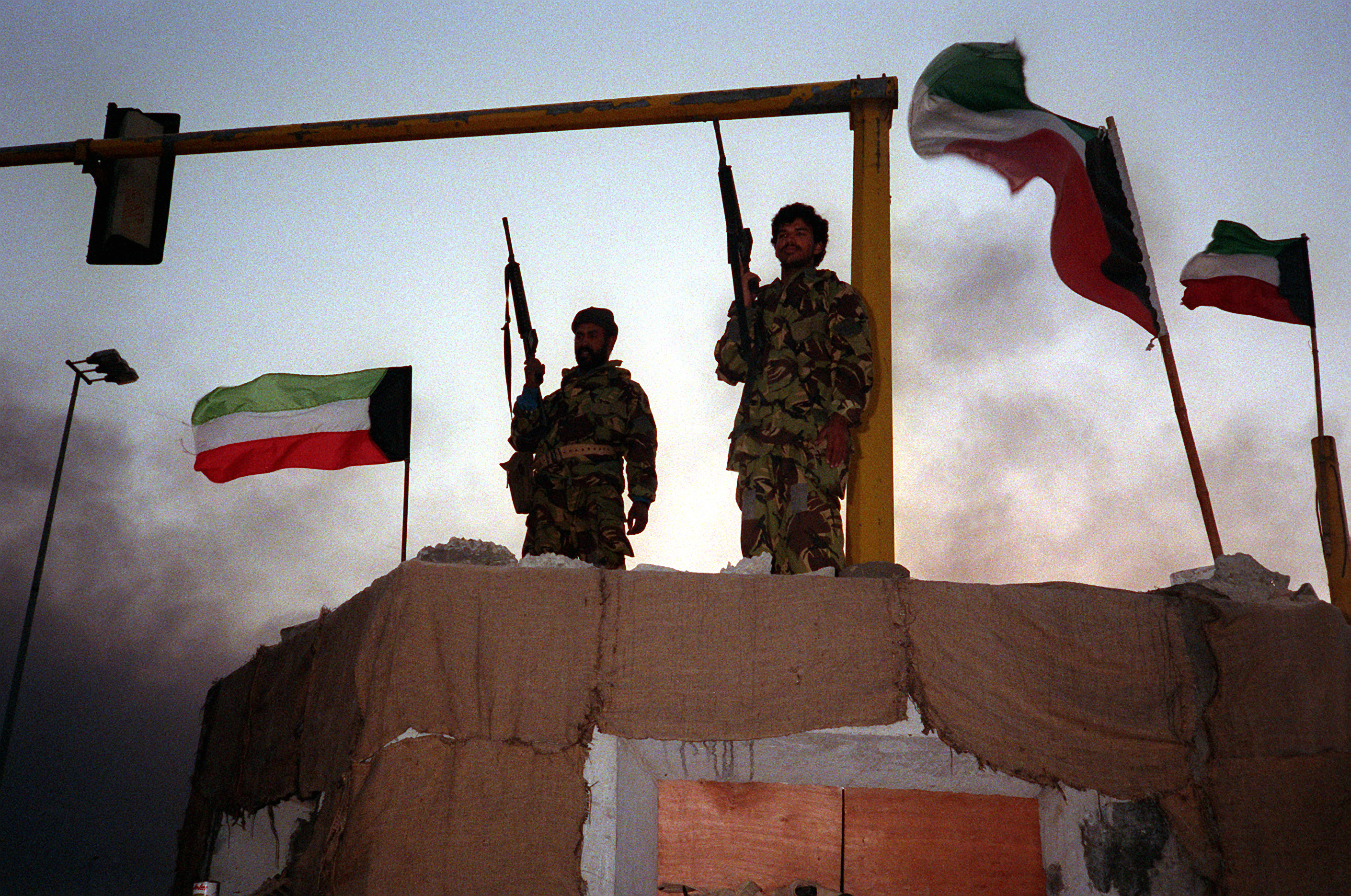 Kuwaiti guards armed with M-16 rifles stand beside their nation's flag at a roadside checkpoint in Kuwait City following the withdrawal of Iraqi forces. The troops were ousted from the country by U.S. and allied forces during Operation Desert Storm.